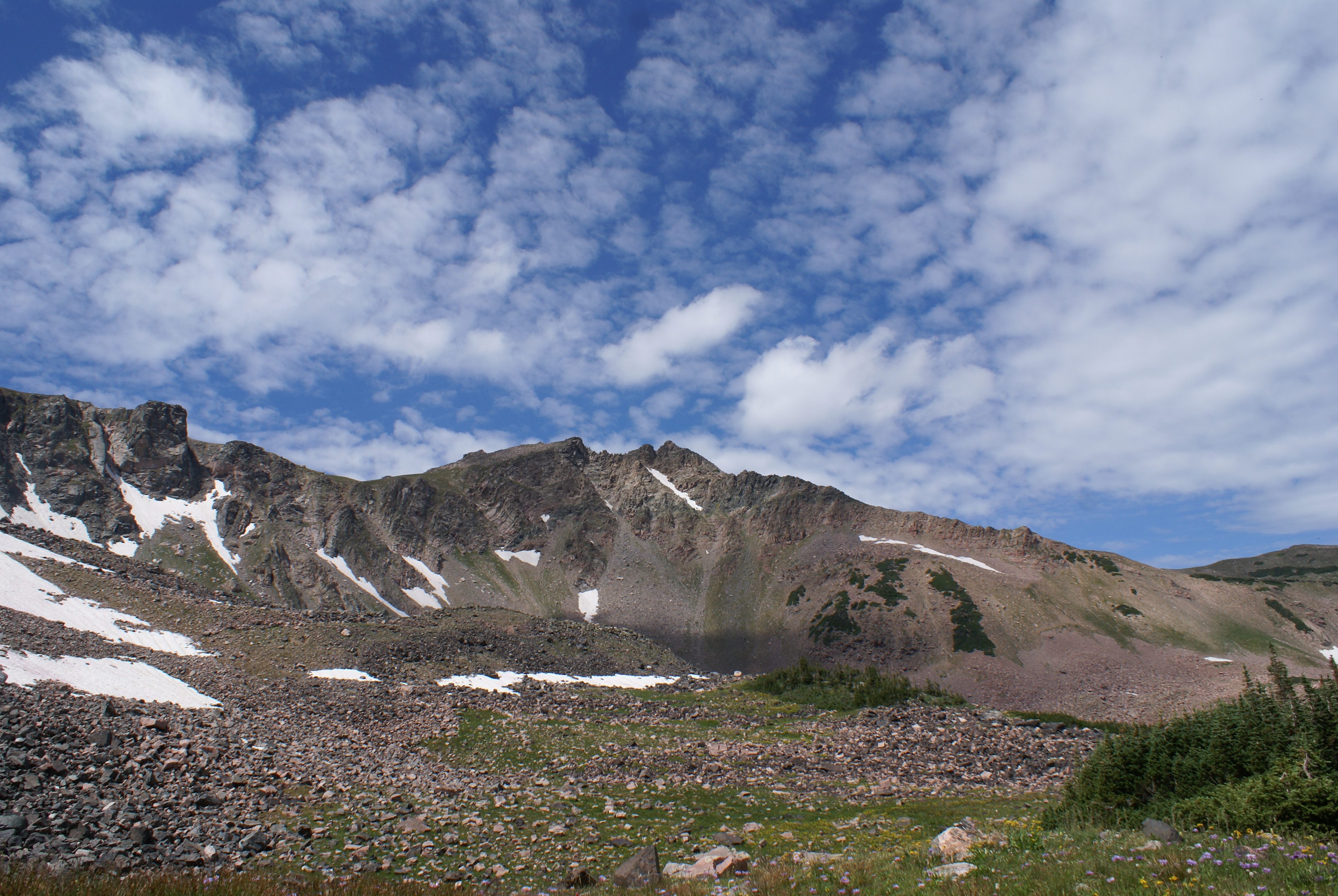 View of West face of Mt. Zirkel in Mt. Zirkel Wilderness in northern Colorado, taken from Fryingpan Basin. Taken August 13, 2014.